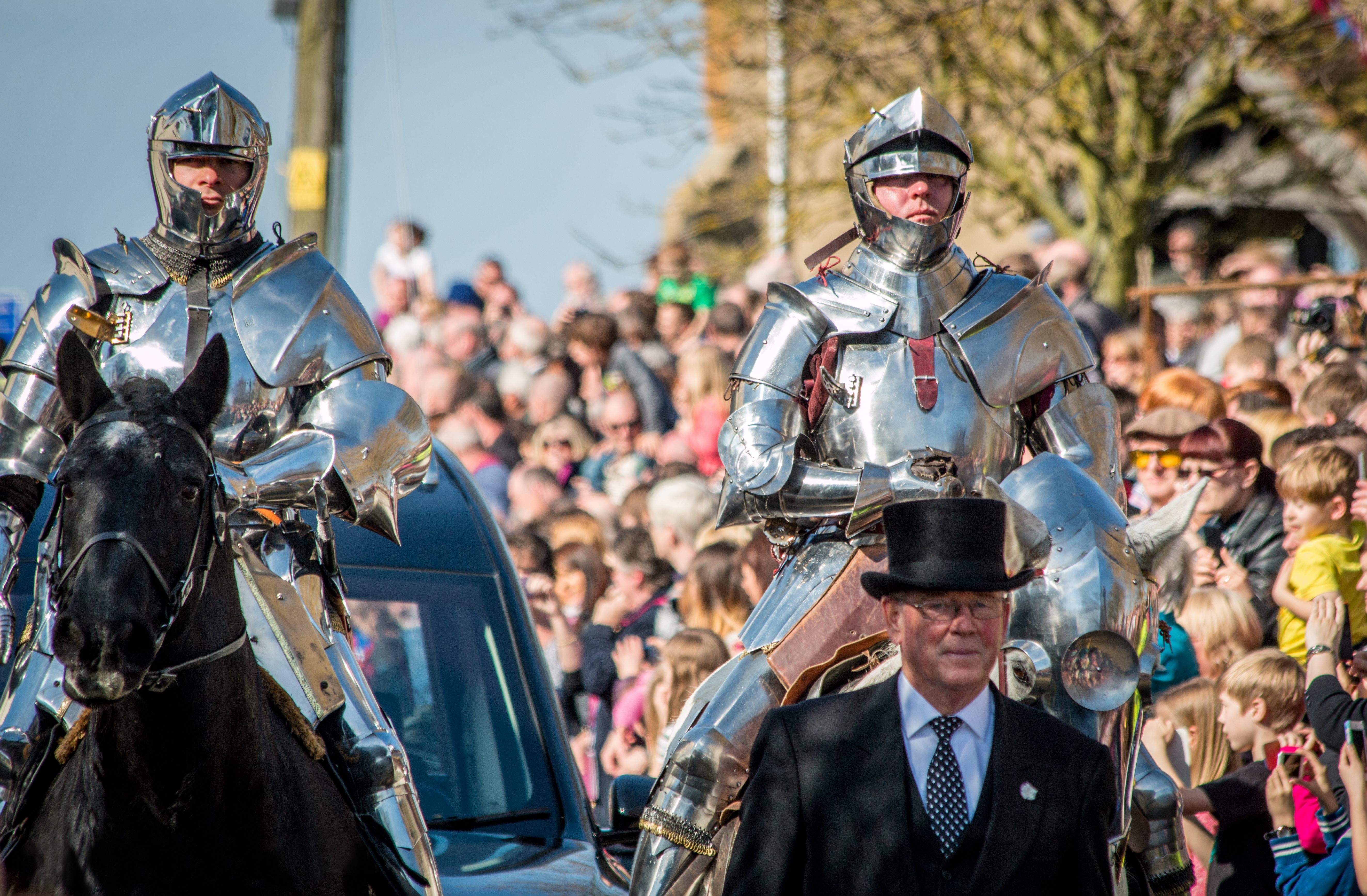 Reinterment cortege of King Richard III